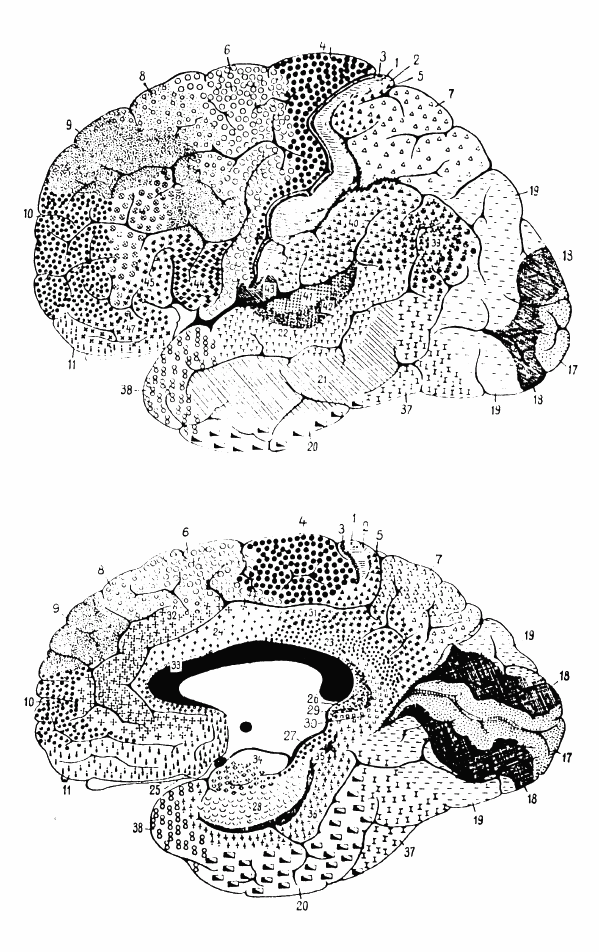 Cytoarchitectonics of human brain according to Brodmann (1909)